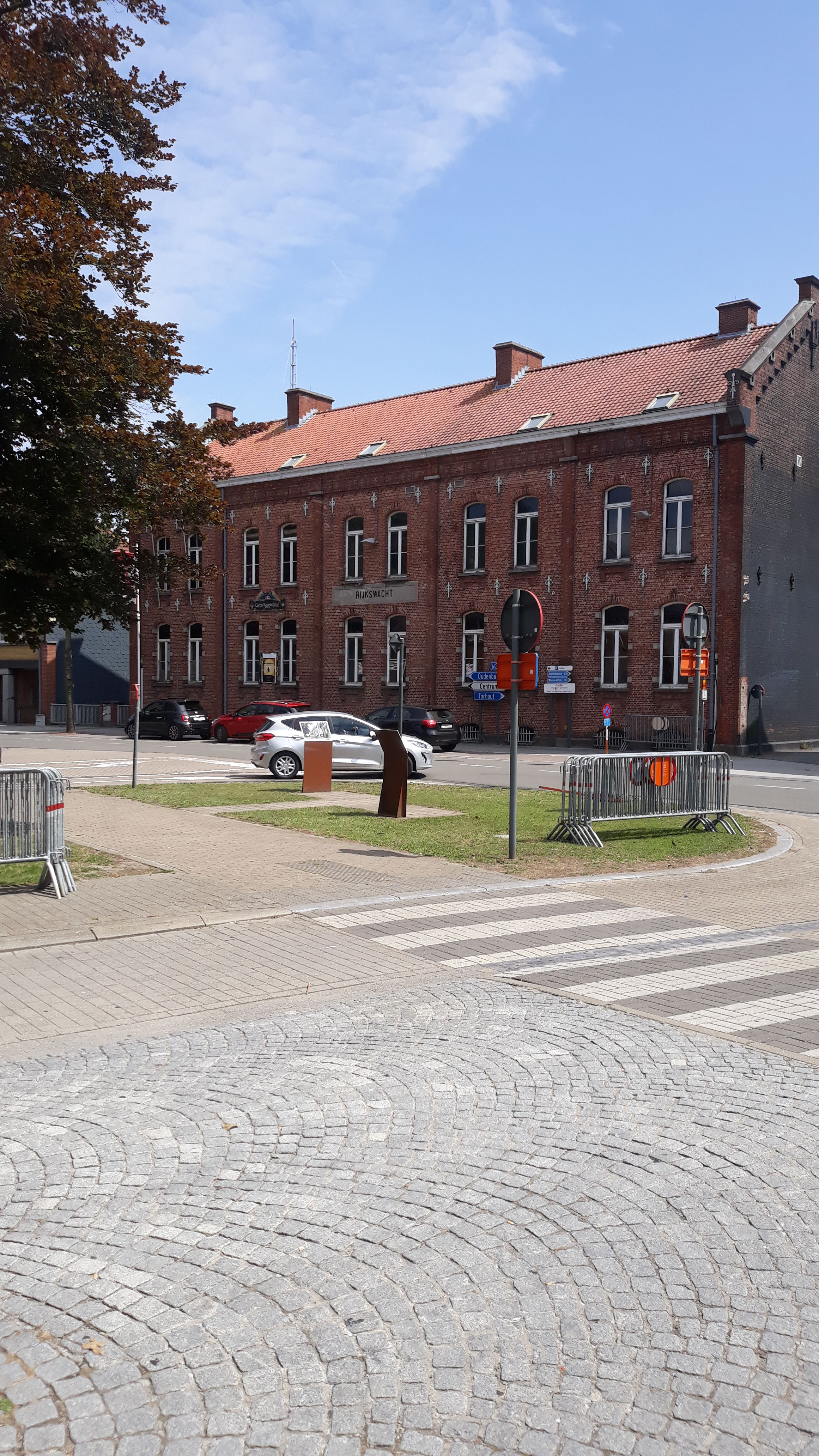 Old Station of the Belgian "Rijkswacht/Gendarmerie" in Gistel (West-Vlaanderen).